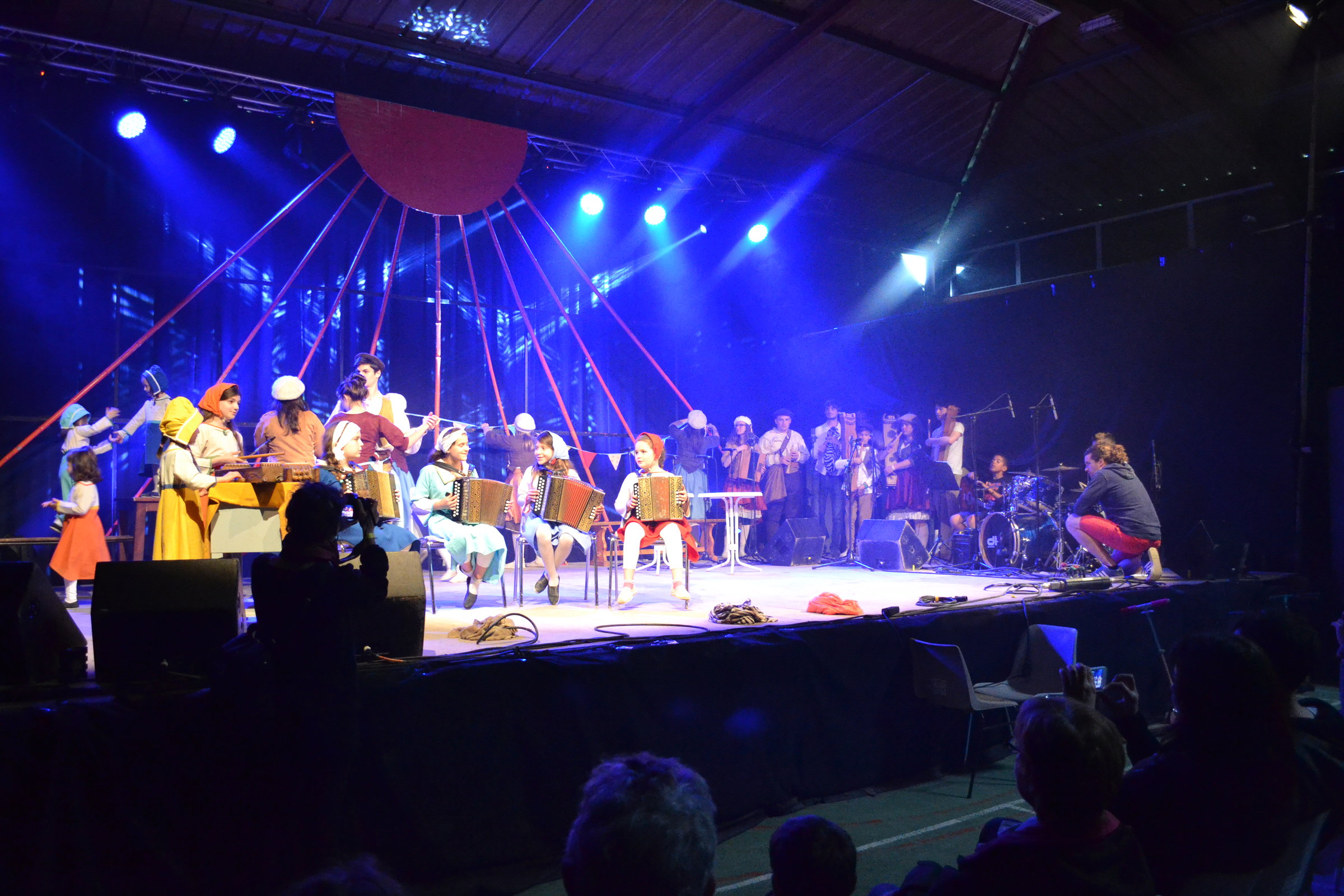 Los Chancaires during Primtemps de l'arribèra on 2015.